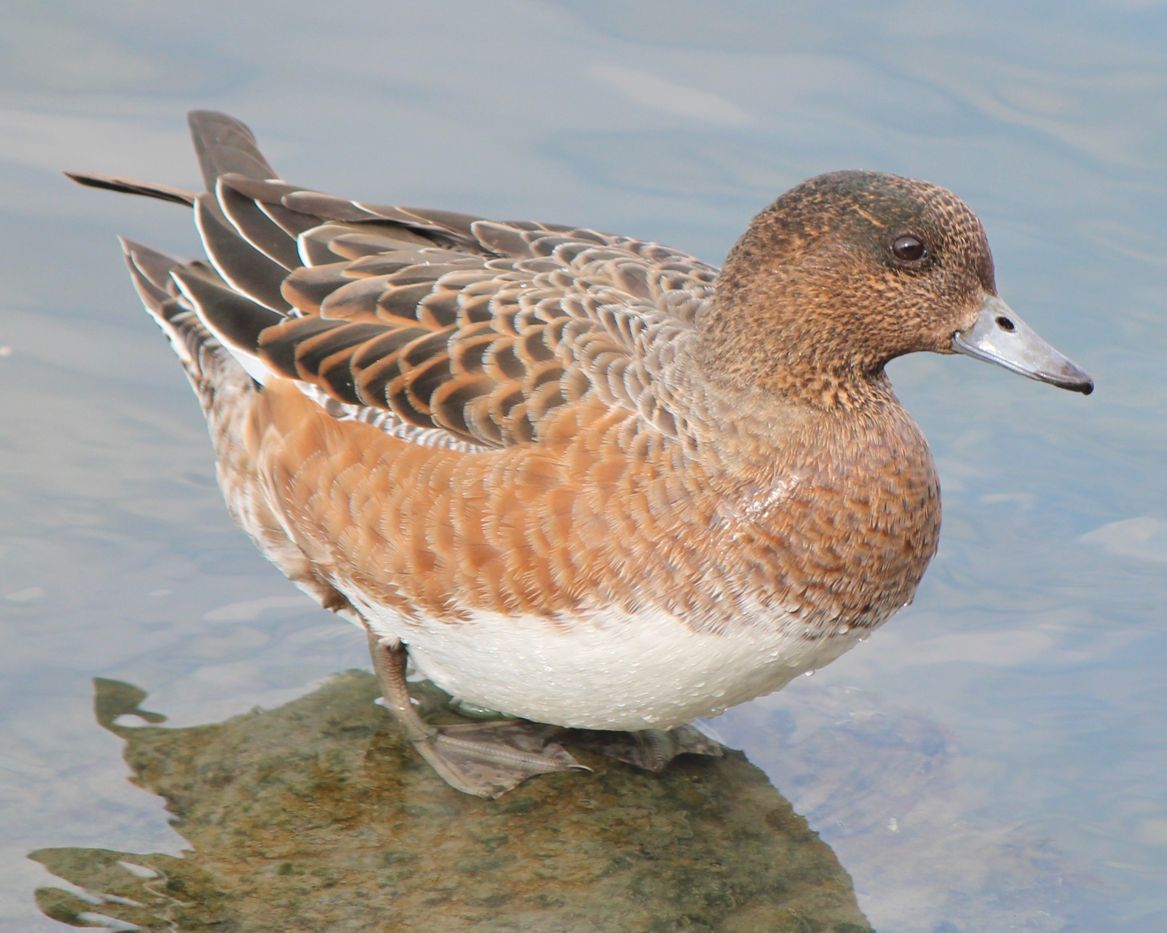 Eurasian Wigeon (Mareca penelope), femle, in Fujimae-higata, Nagoya, Aichi prefecture, Japan.